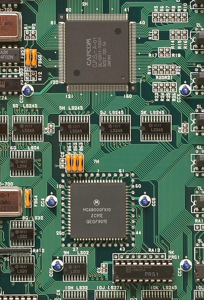 Capcom CPS1 CPU and GPU